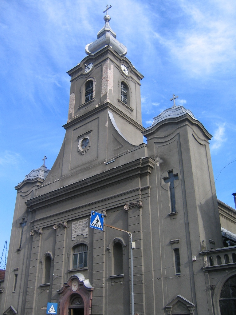 Roman-Catholic Church, Lugoj, Romania